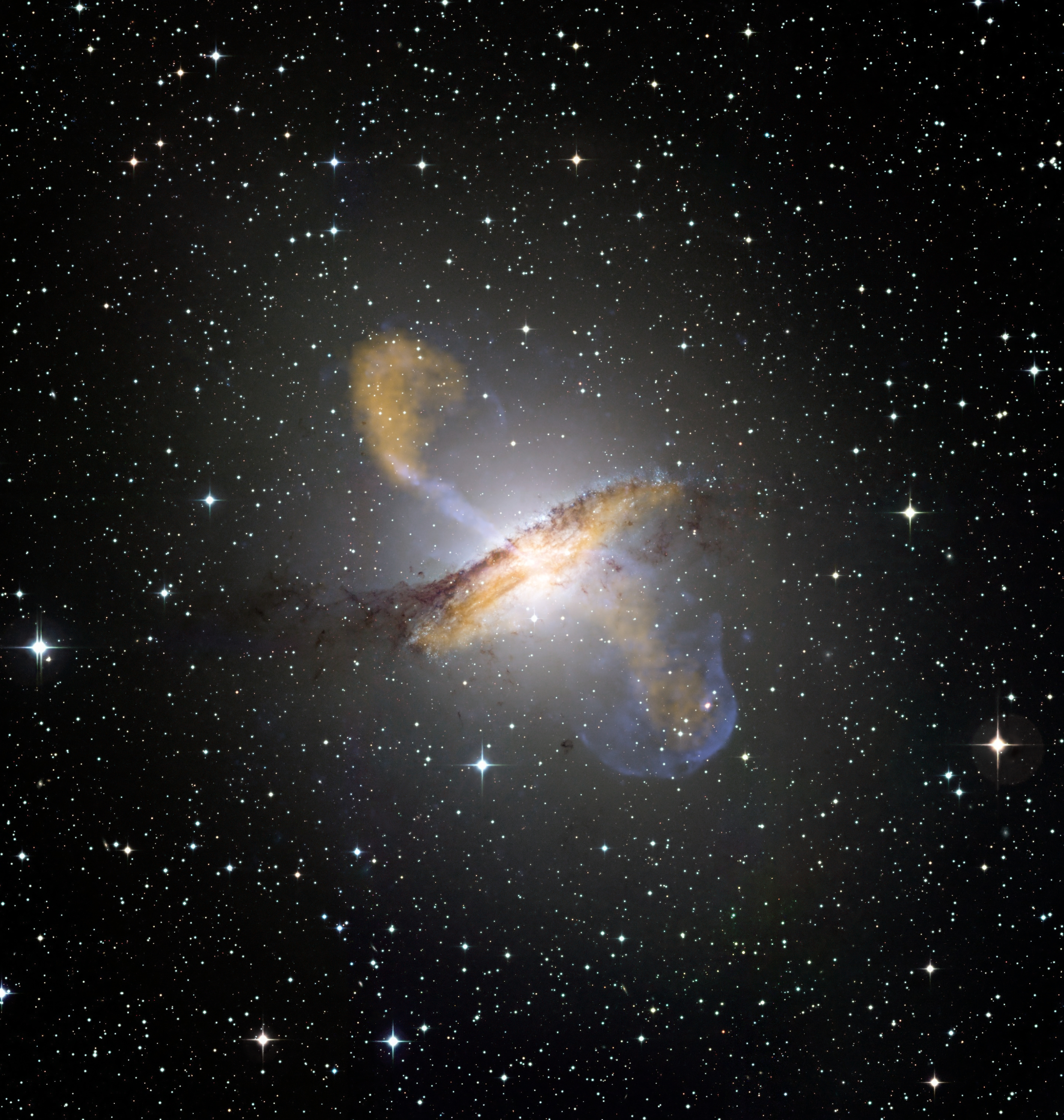 Colour composite image of Centaurus A, revealing the lobes and jets emanating from the active galaxy’s central black hole. This is a composite of images obtained with three instruments, operating at very different wavelengths. The 870-micron submillimetre data, from LABOCA on APEX, are shown in orange. X-ray data from the Chandra X-ray Observatory are shown in blue. Visible light data from the Wide Field Imager (WFI) on the MPG/ESO 2.2 m telescope located at La Silla, Chile, show the background stars and the galaxy’s characteristic dust lane in close to "true colour".